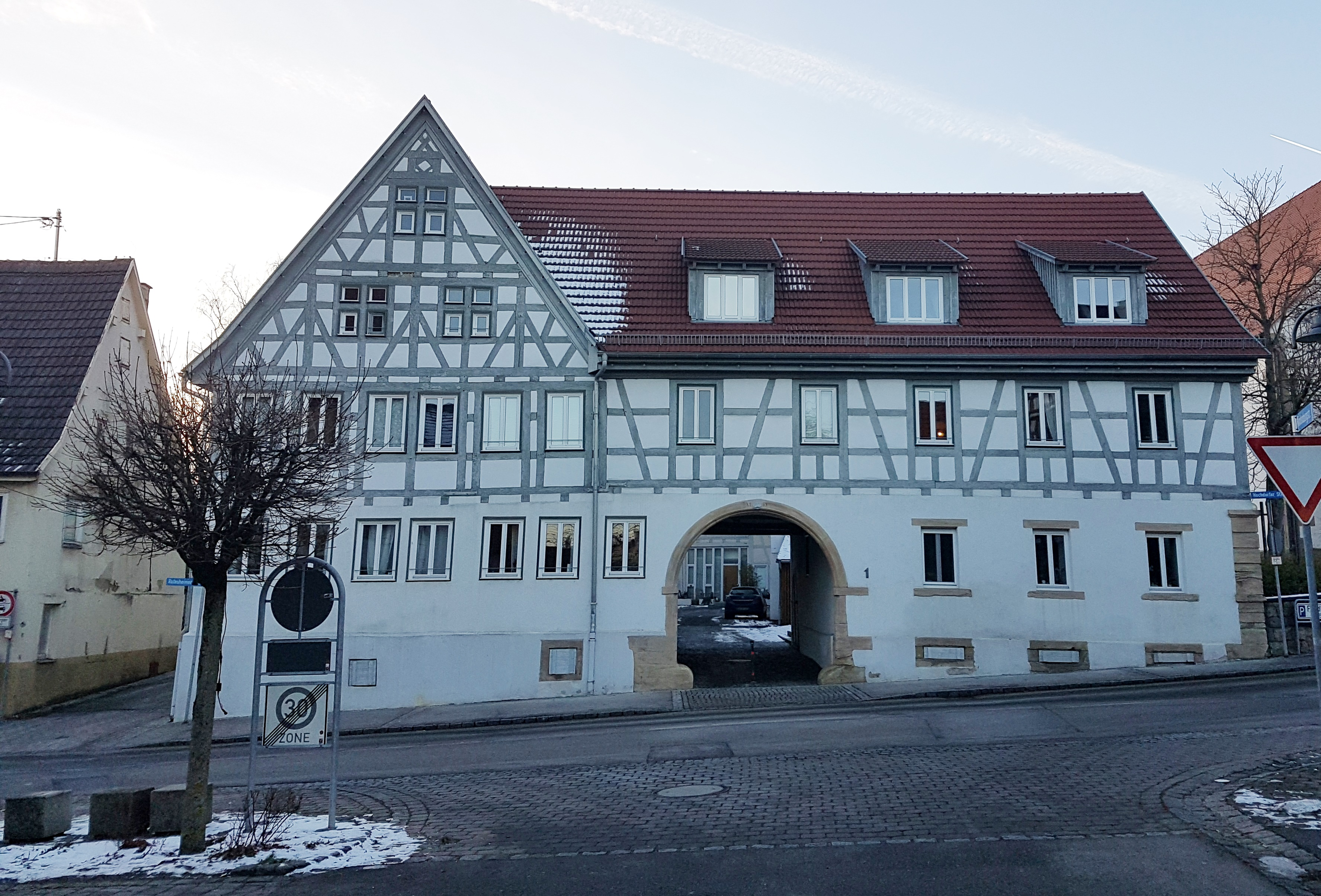 Former "Adler" inn in Heimerdingen